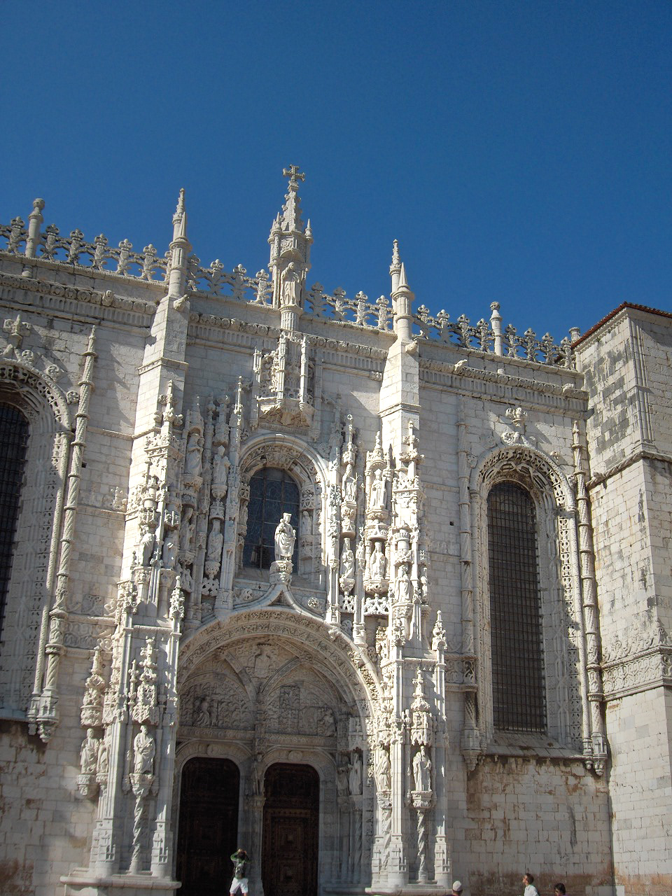 Main entrance to the church of the Jerónimos Monastery, Belém, Portugal